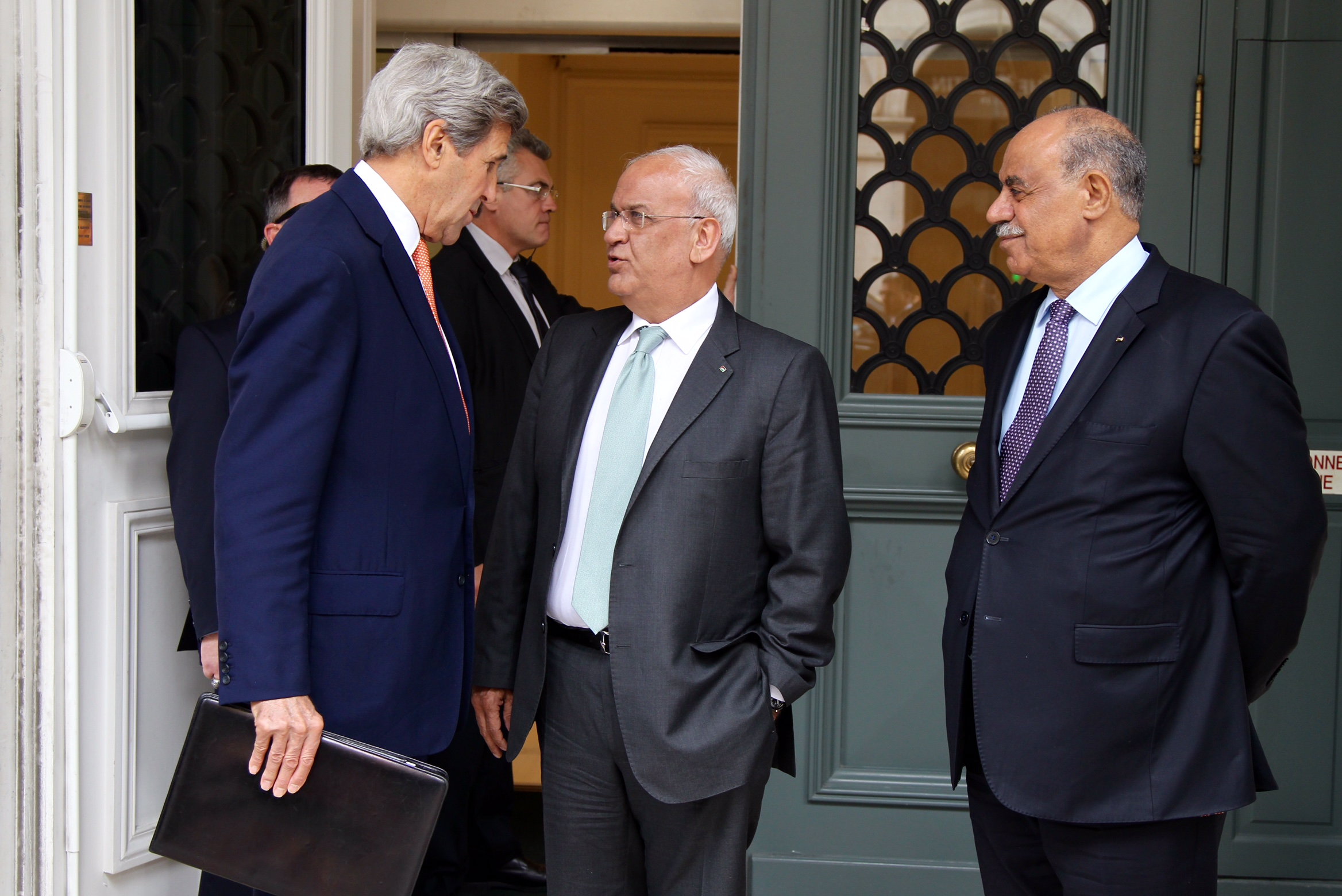 U.S. Secretary of State John Kerry chats with Chef Palestinian Negotiator Saeb Erekat upon concluding his meeting with State of Palestine President Mahmoud Abbas at the Le Meurice Hotel in Paris, France on July 30, 2016. [State Department Photo/Public Domain]